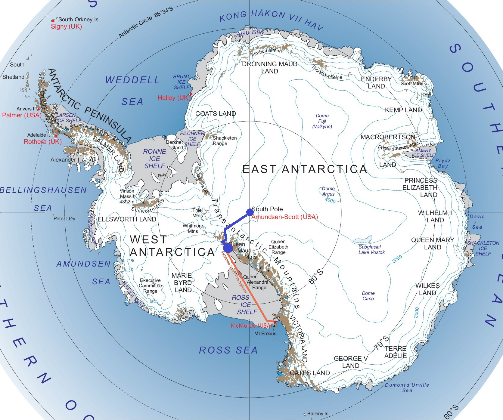 Map of the route used by Maria Leijerstam in December, 2013 cycling across the South Pole Traverse to the pole.